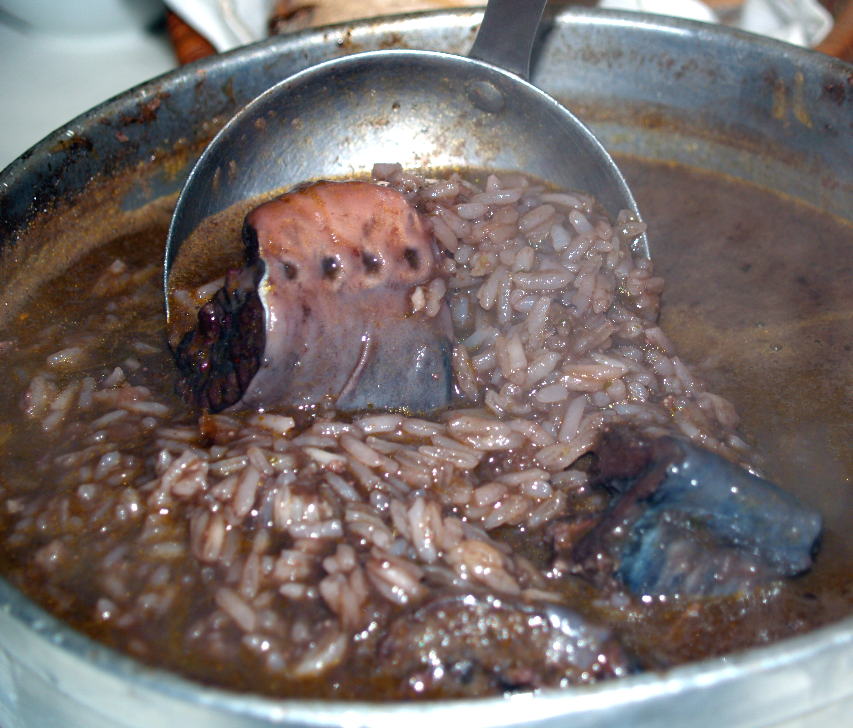 meal with lamprey and rice